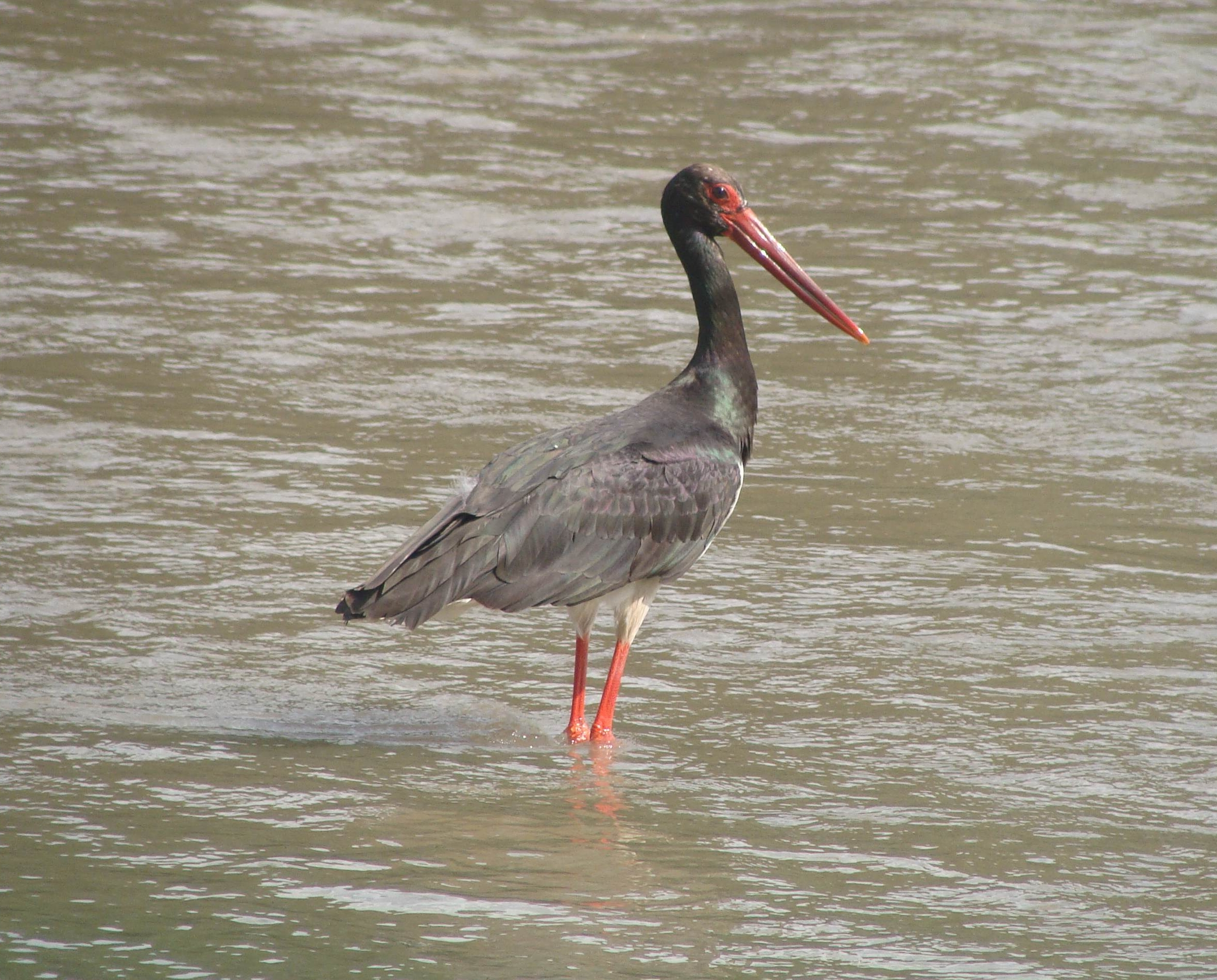 Black Stork at the San River, Sanok, Poland.